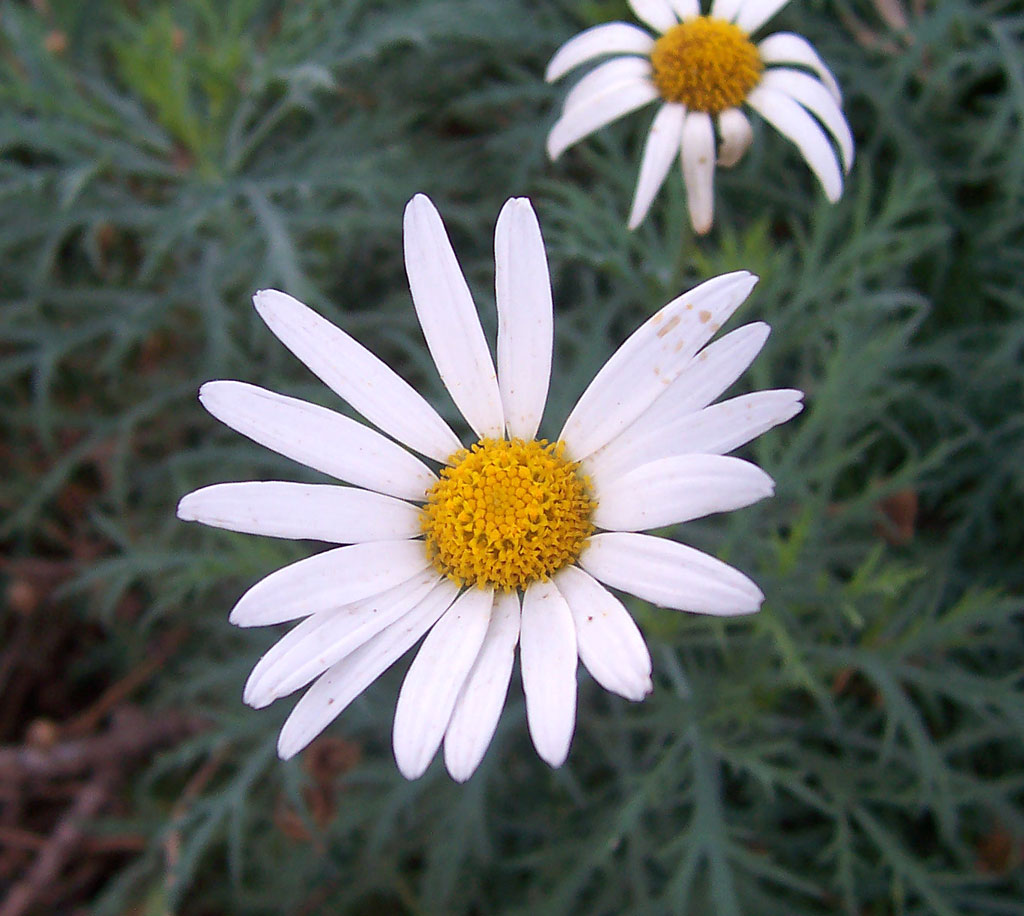 Daisy, Argyranthemum frutescens, Asteraceae